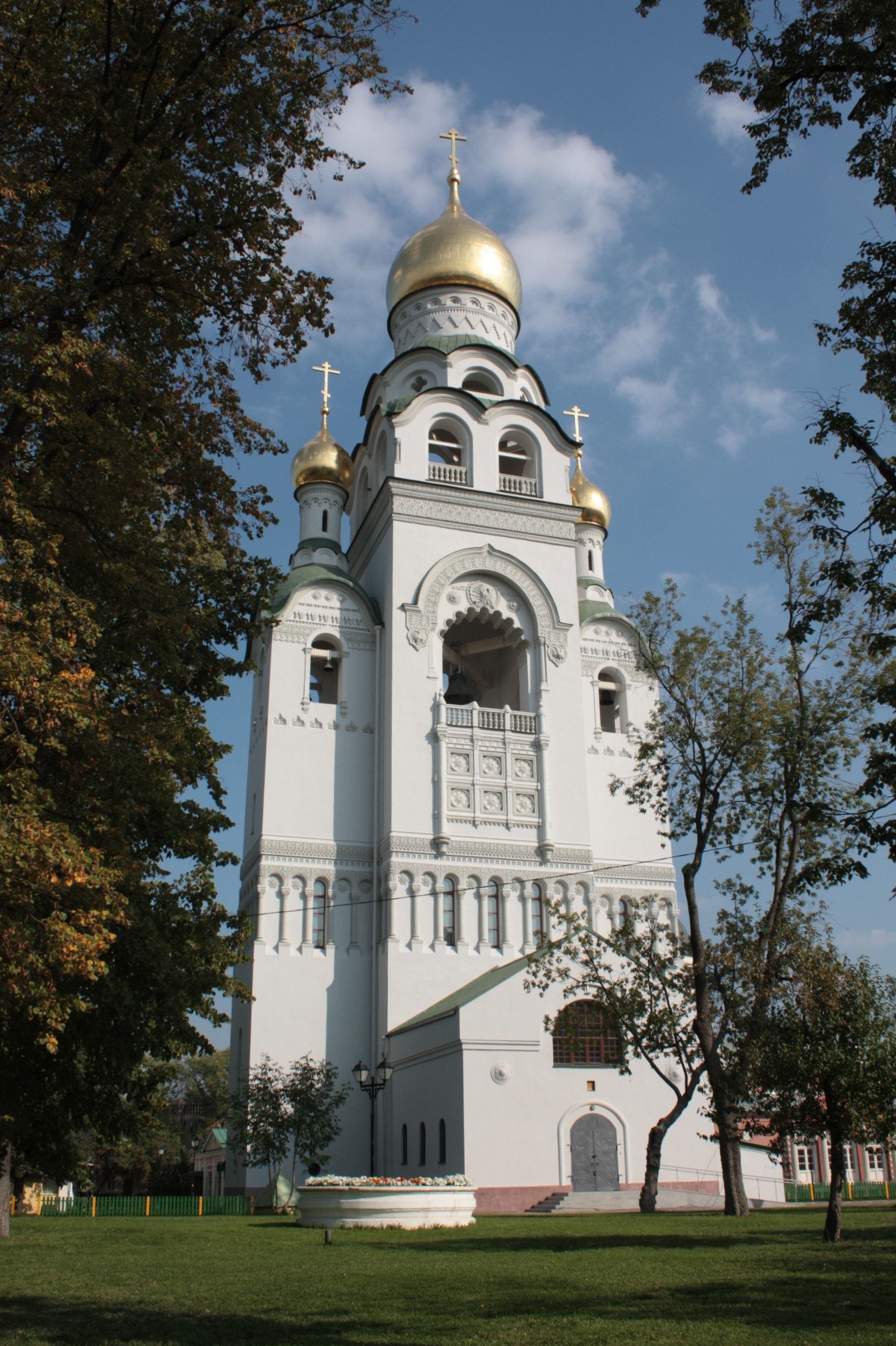 . Рогожское